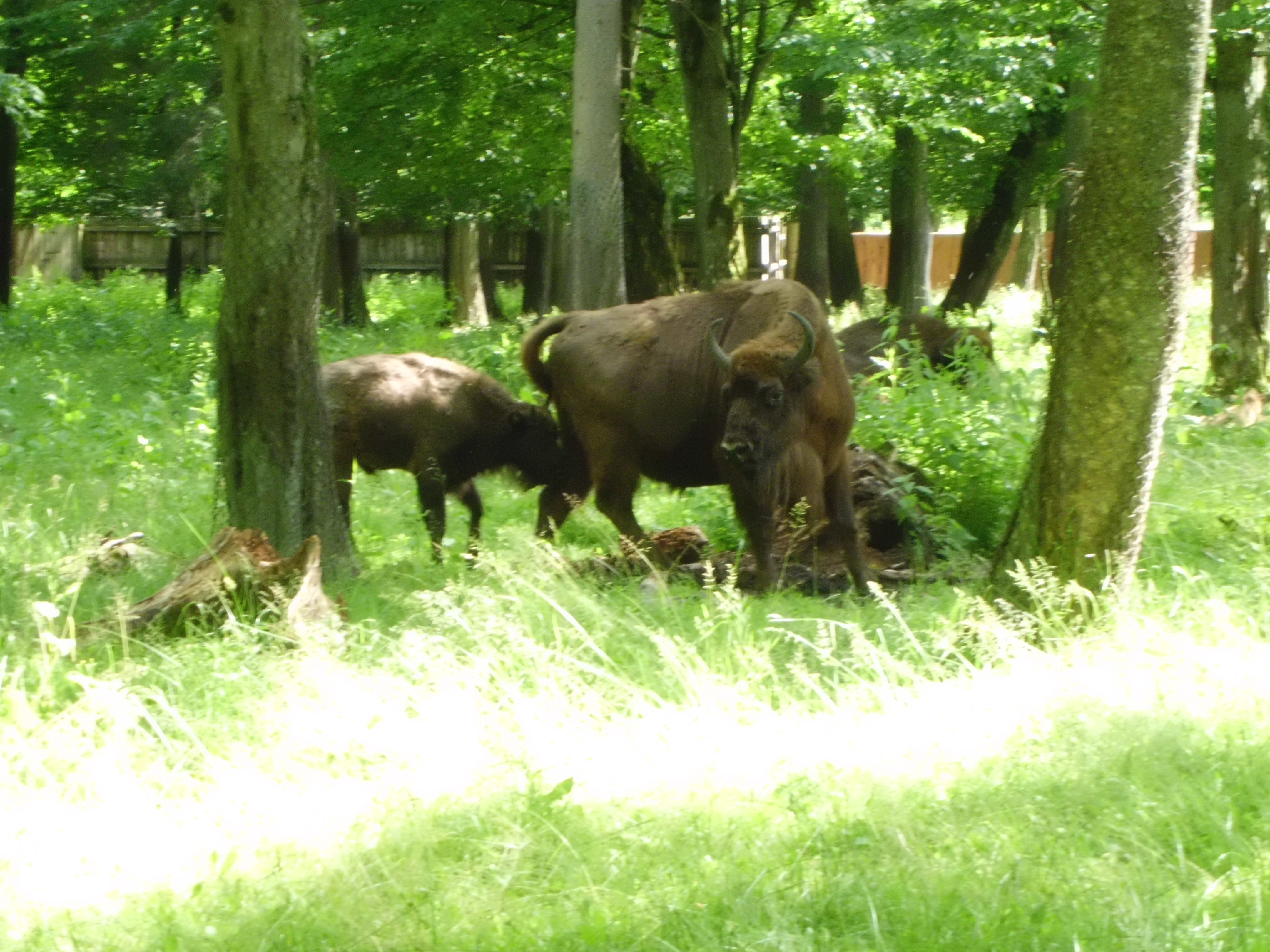 European Bison in the Bialowieza Forest (Poland)